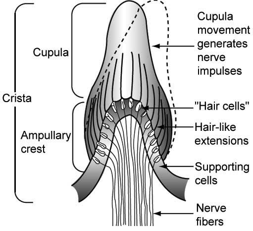 A diagram of the parts of the inner ear's vestibular system that convert movement and tilt (of the head) to sensation. When movement of the endolymph causes the cupula to bend, sensory hair cells generate nerve impulses which the brain perceives as angular acceleration.